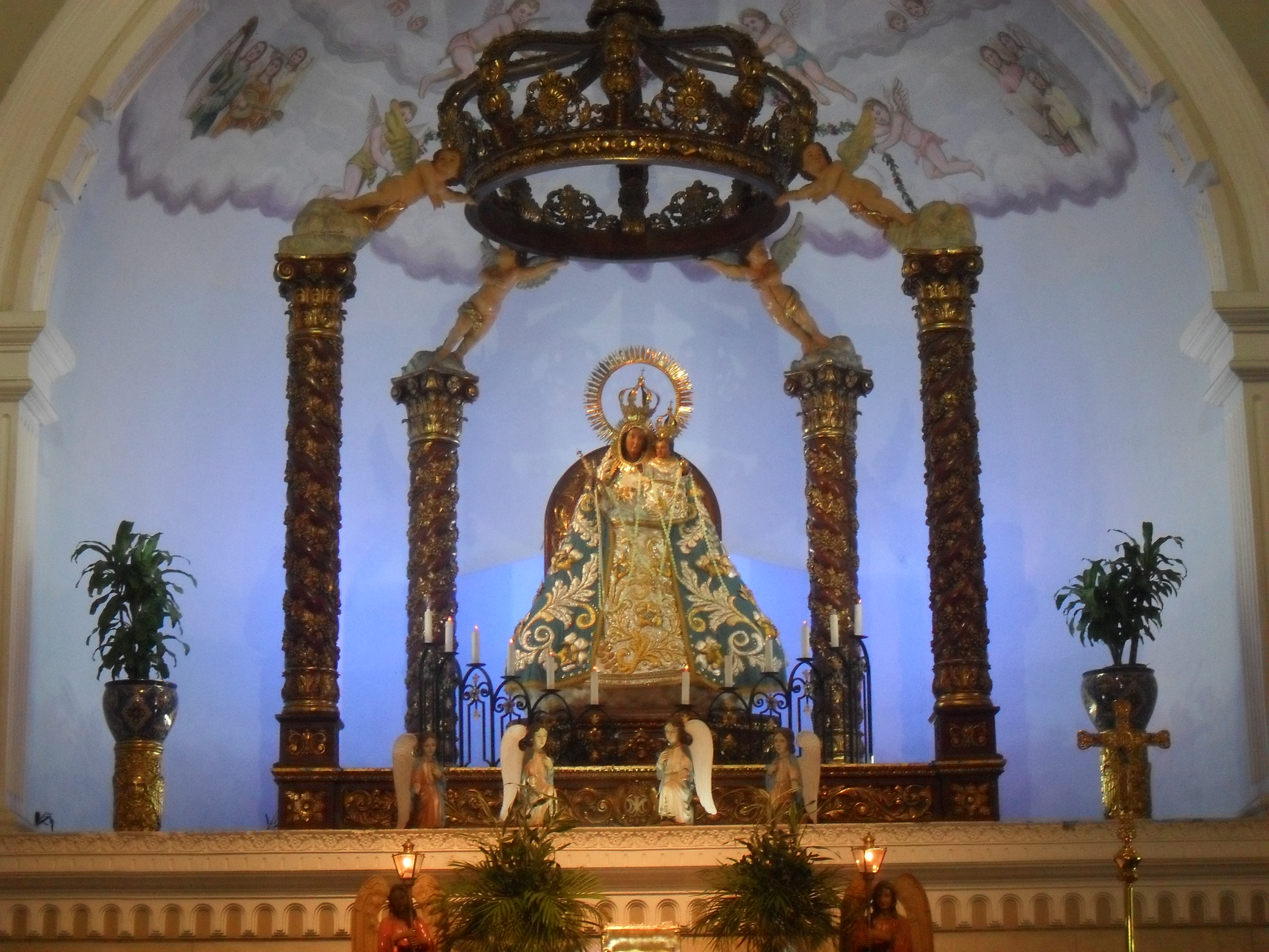 Our Lady of the Most Holy Rosary Parish Church, Orani, Bataan